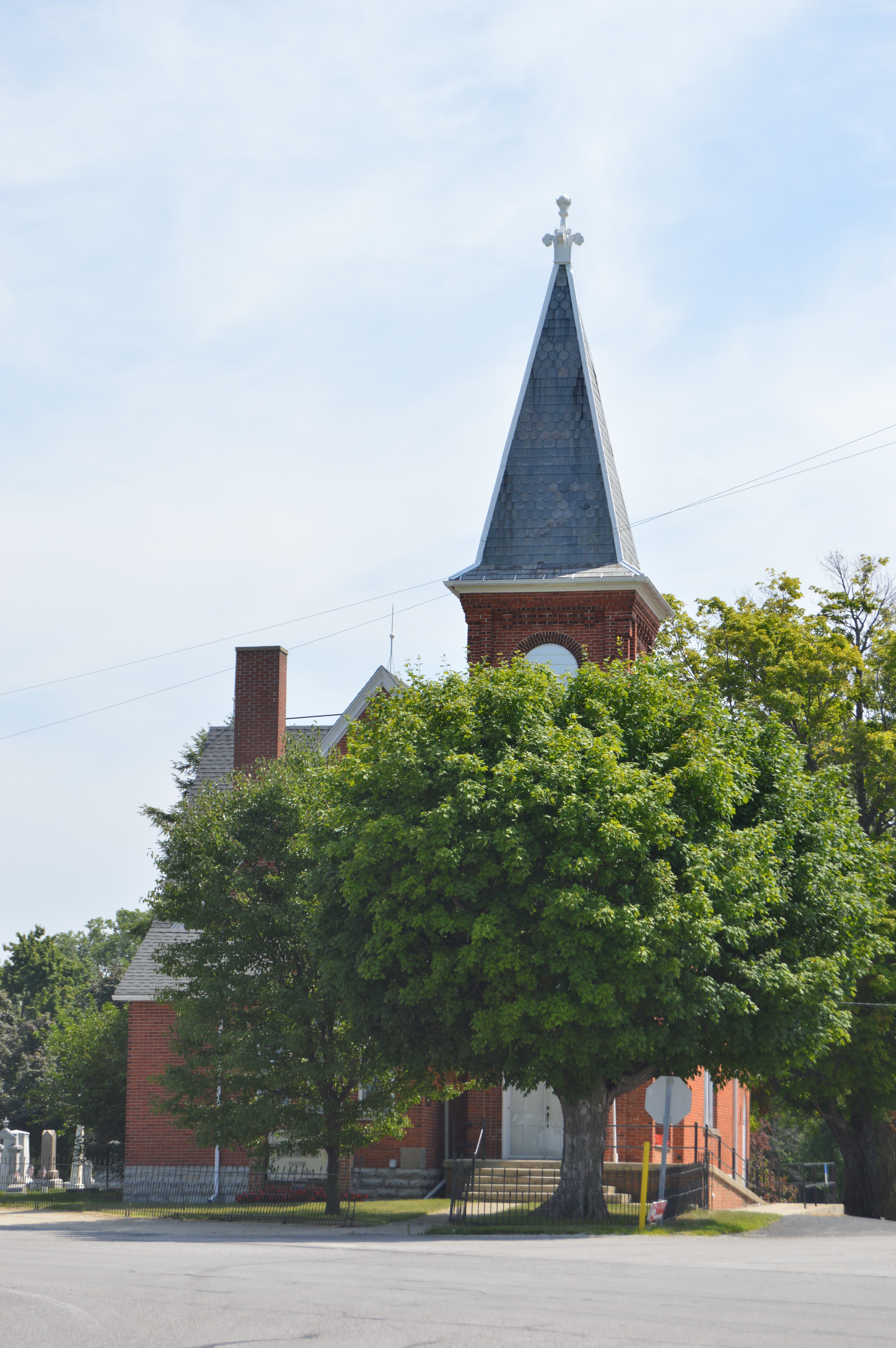 Roadside view of the front of Pleasant Ridge United Methodist Church, located at 3721 State Route 101 northeast of Tiffin in Pleasant Township, Seneca County, Ohio, United States. Built in 1890, it is listed on the National Register of Historic Places.